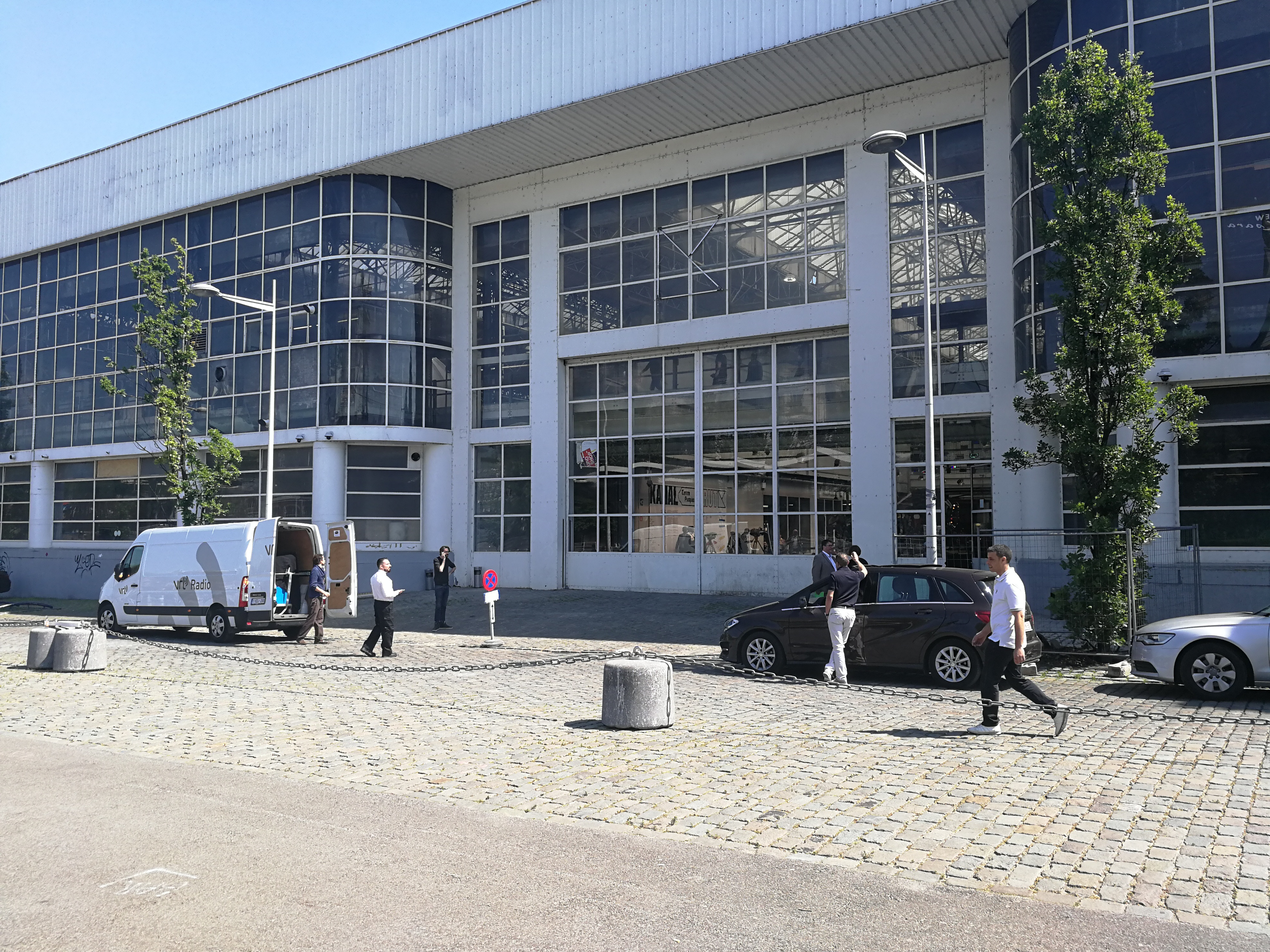 Entrance of Kanal Centre Pompidou, quai des Péniches, nearby the Brussels-Charleroi Canal.